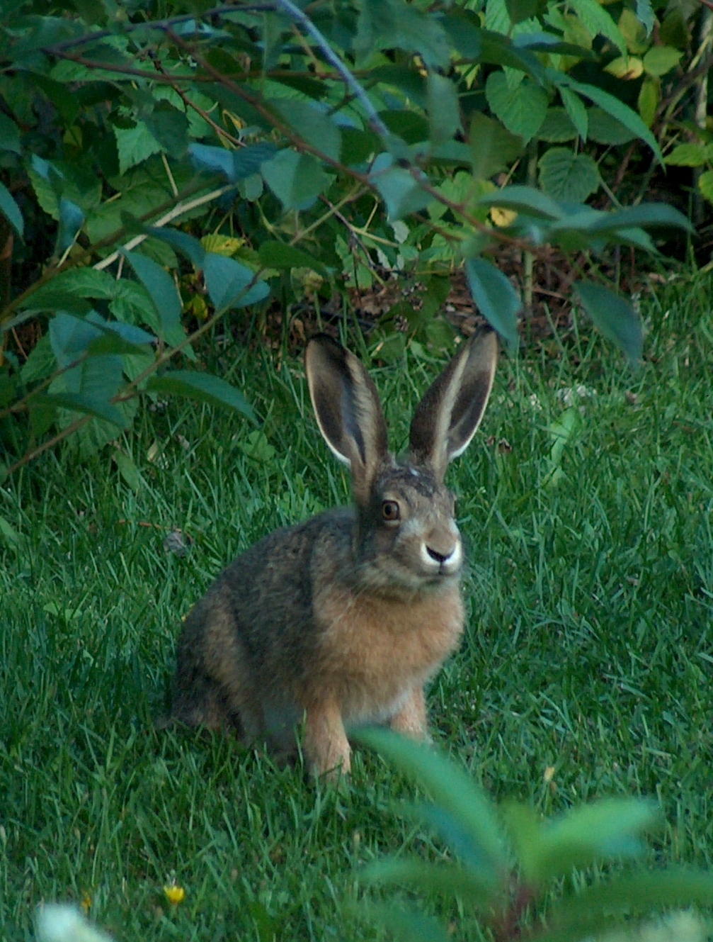 Lepus europaeus, European hare in a garden in Helsinki, Finland